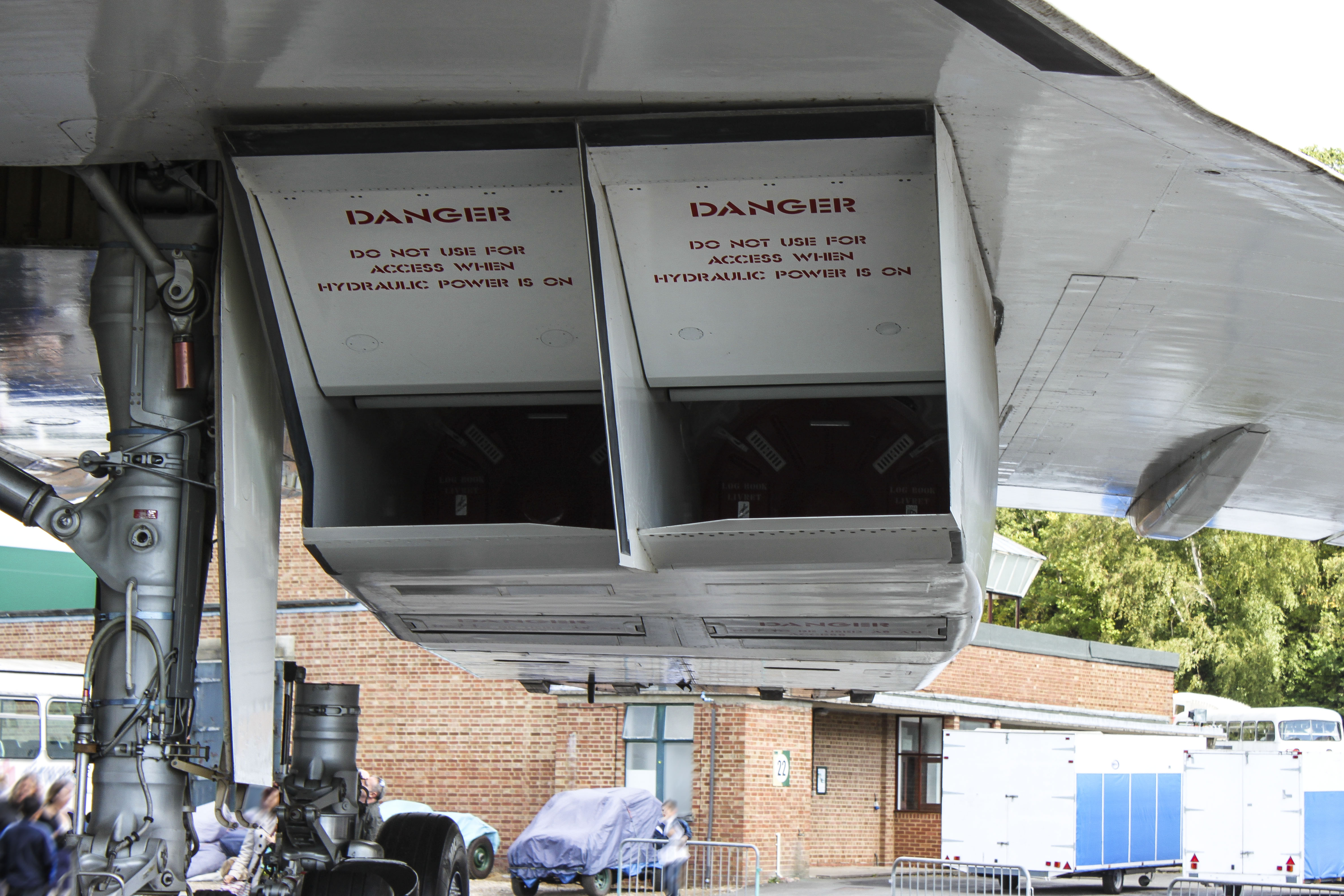 G-BBDG Concorde left engines. Adjustable intake ramps shown with red warning lable.